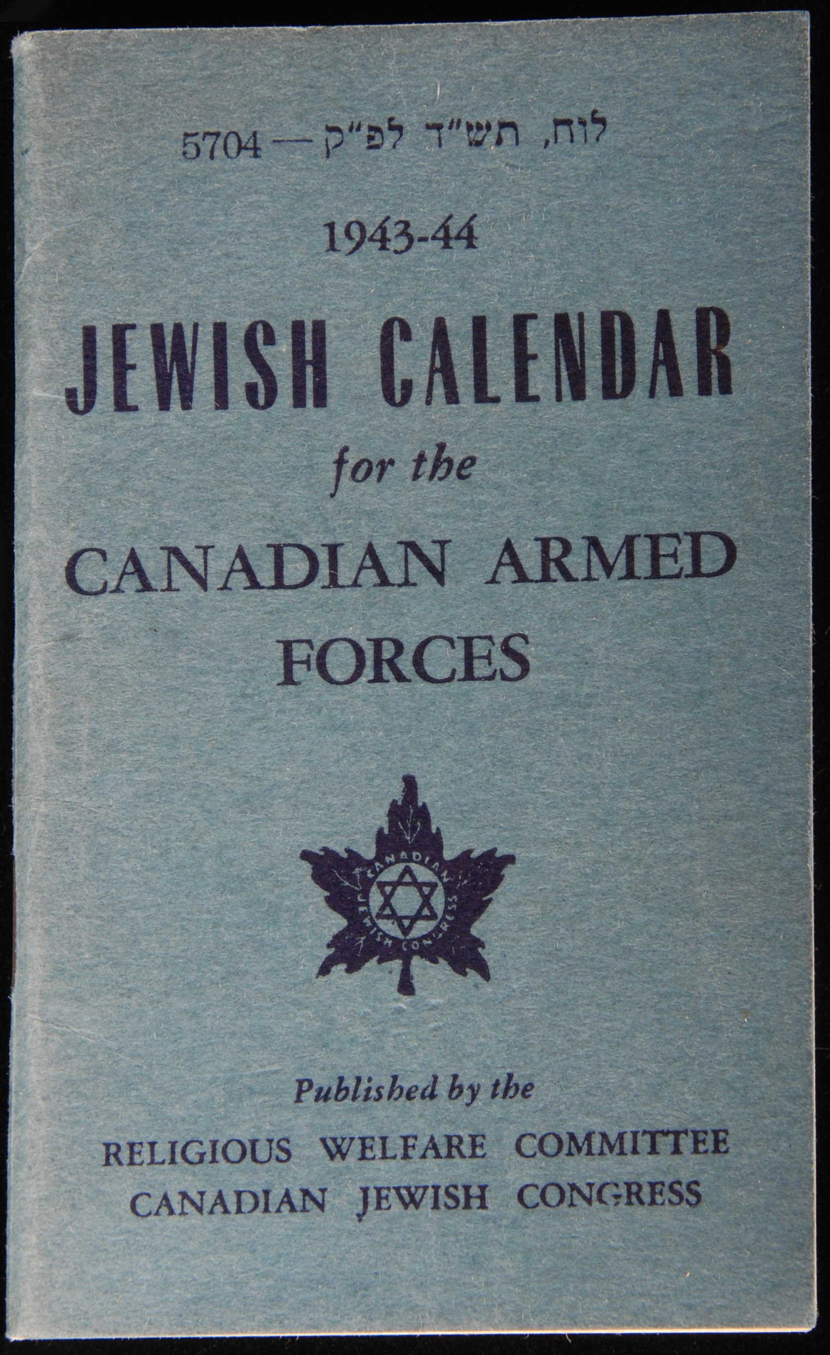 "1943–44 Jewish calendar for the Canadian Armed Forces", published by the Religious Welfare Committee, Canadian Jewish Congress in Montreal, Quebec